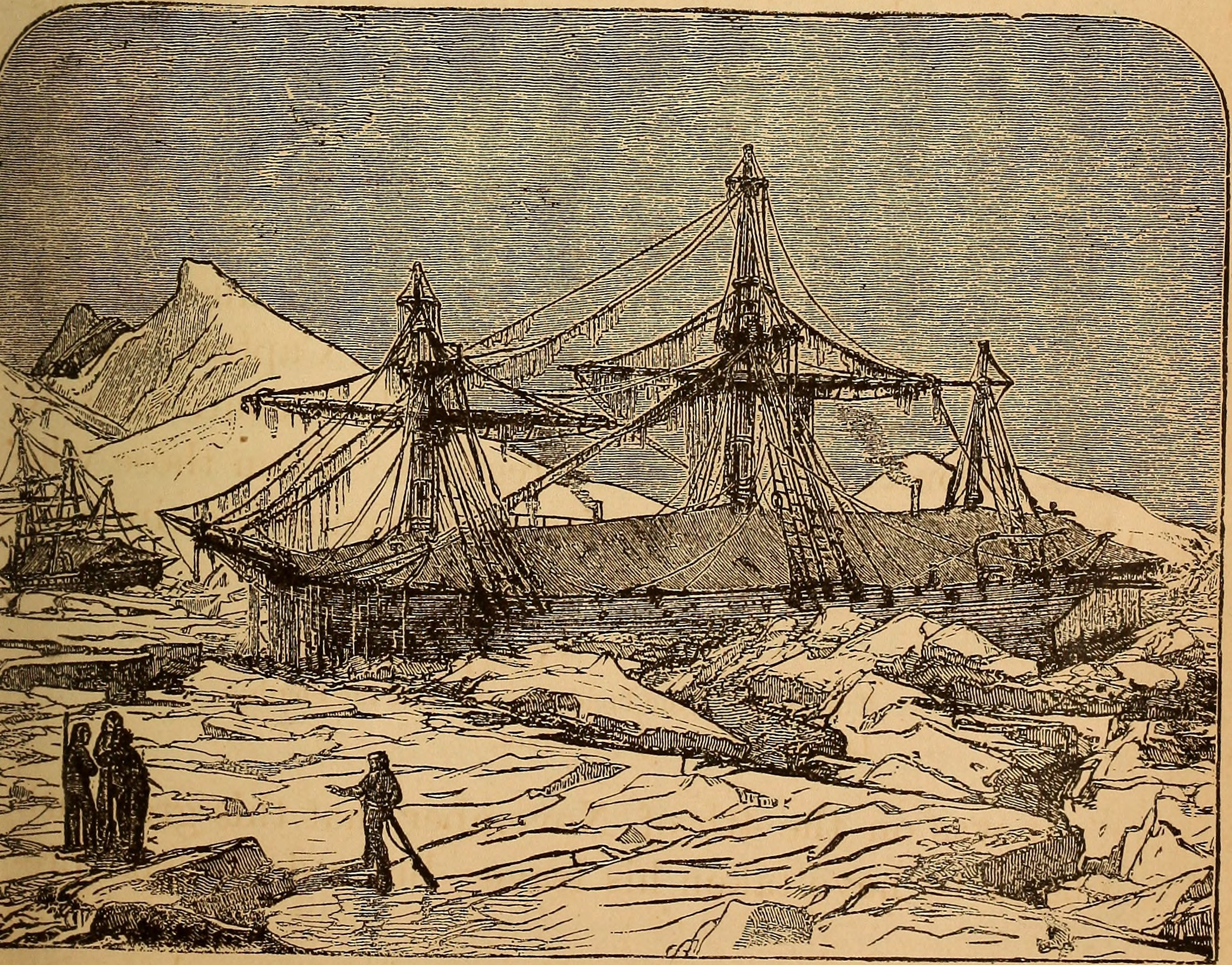 William Edward Parry's ships in winter quarters Title: The frozen zone and its explorers; a comprehensive record of voyages, travels, discoveries, adventures and whale-fishing in the Arctic regions for one thousand years Year: 1874 (1870s) Authors: Hyde, Alexander, 1814-1881 Baldwin, Abraham Chittenden, 1804-1887, joint author Gage, William Leonard, 1832-1889, joint author Shields, Charles W. (Charles Woodruff), 1825-1904 Subjects: Kane, Elisha Kent, 1820-1857 Polaris (Ship) Publisher: Hartford, Conn. (etc.) Columbia book company Text Appearing Before Image: TRACK CF THE HECLA AND GRIPER. Text Appearing After Image: PARRY S SHIPS IN WINTER QUARTERS. WINTER AMUSEMENTS. 159 vented tliem from bidding a formal farewell Amidvarious occupations and amusements tlie shortest daycame on almost unexpected, and the seamen thenwatched with pleasure the midday twilight graduallystrengthening. On the 3d of February the sun wasagain seen from the maintop of the Hecla. Throughthe greatest depth of the Polar night, the officers, dur-ing the brief twilight, had taken a regular walk oftwo or three hours, although never longer thana mile lest they should be overtaken by snow-drift.There was a want of objects to diversify this walk.A dreary monotonous surface of dazzling white cover-ed land and sea: the view of the ships, the smoke as-cending from them, and the sound of human voices,which through the calm and cold air was carried toan extraordinary distance, alone gave any animation tothis wintry scene. The officers, however, persevered in their dailywalk, and exercise was also enforced upon the men,who, even when pr